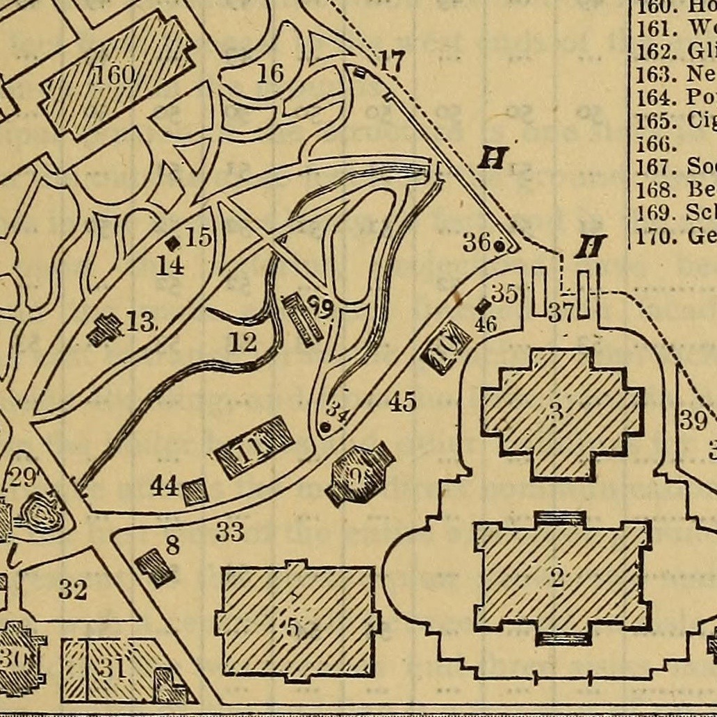 Cropped version of our file File:Official catalogue complete in one volume. I. Main building. II. Department of machinery. III. Department of art. IV. Department of agriculture and horticulture (1876) (14753909806).jpg Memorial Hall is in the lower right-hand corner, Horticultural Hall in the upper left-hand corner